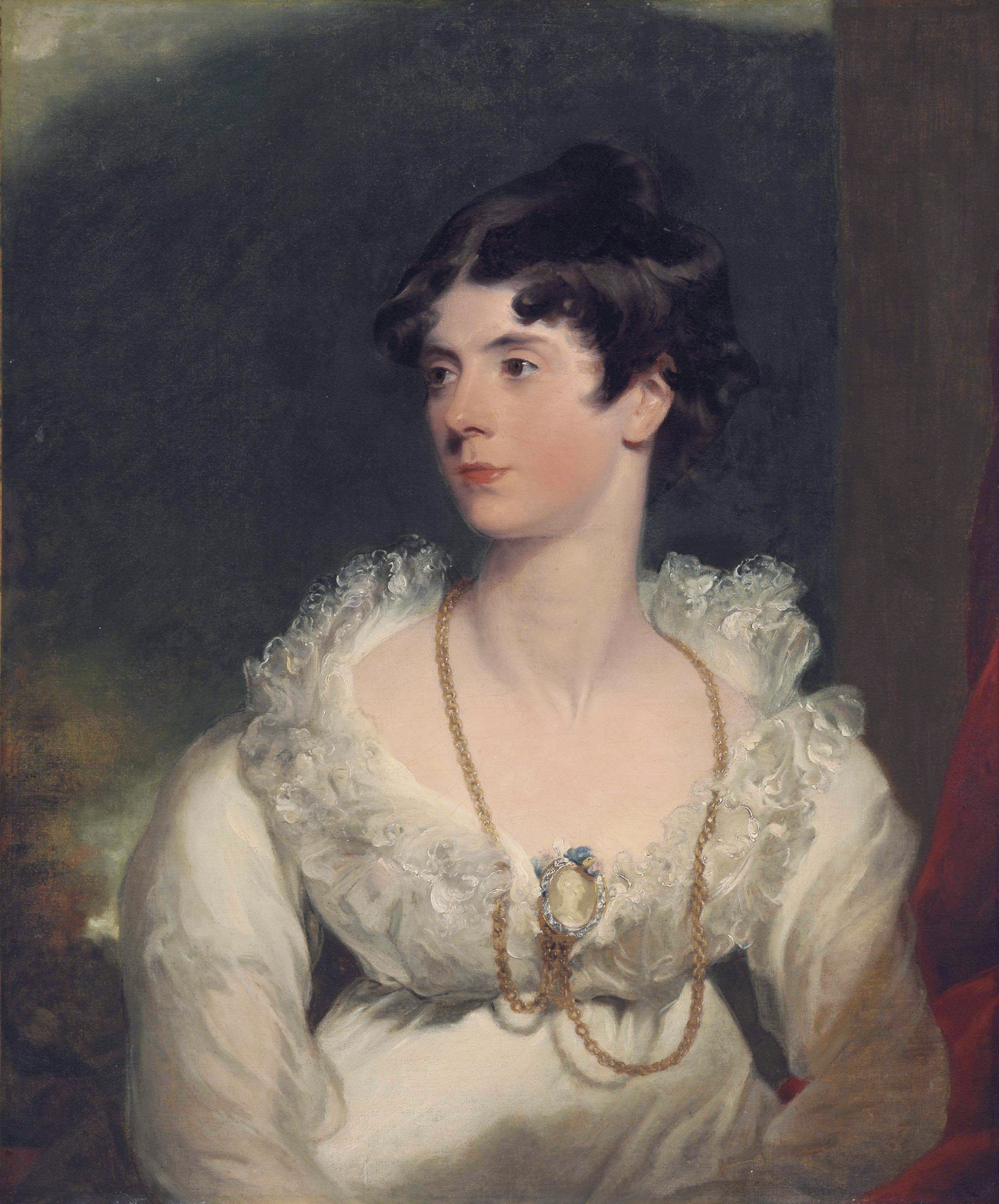 Charlotte Sophia, Countess of Surrey (1788-1870) oil on canvas 76.8 x 64.7 cm